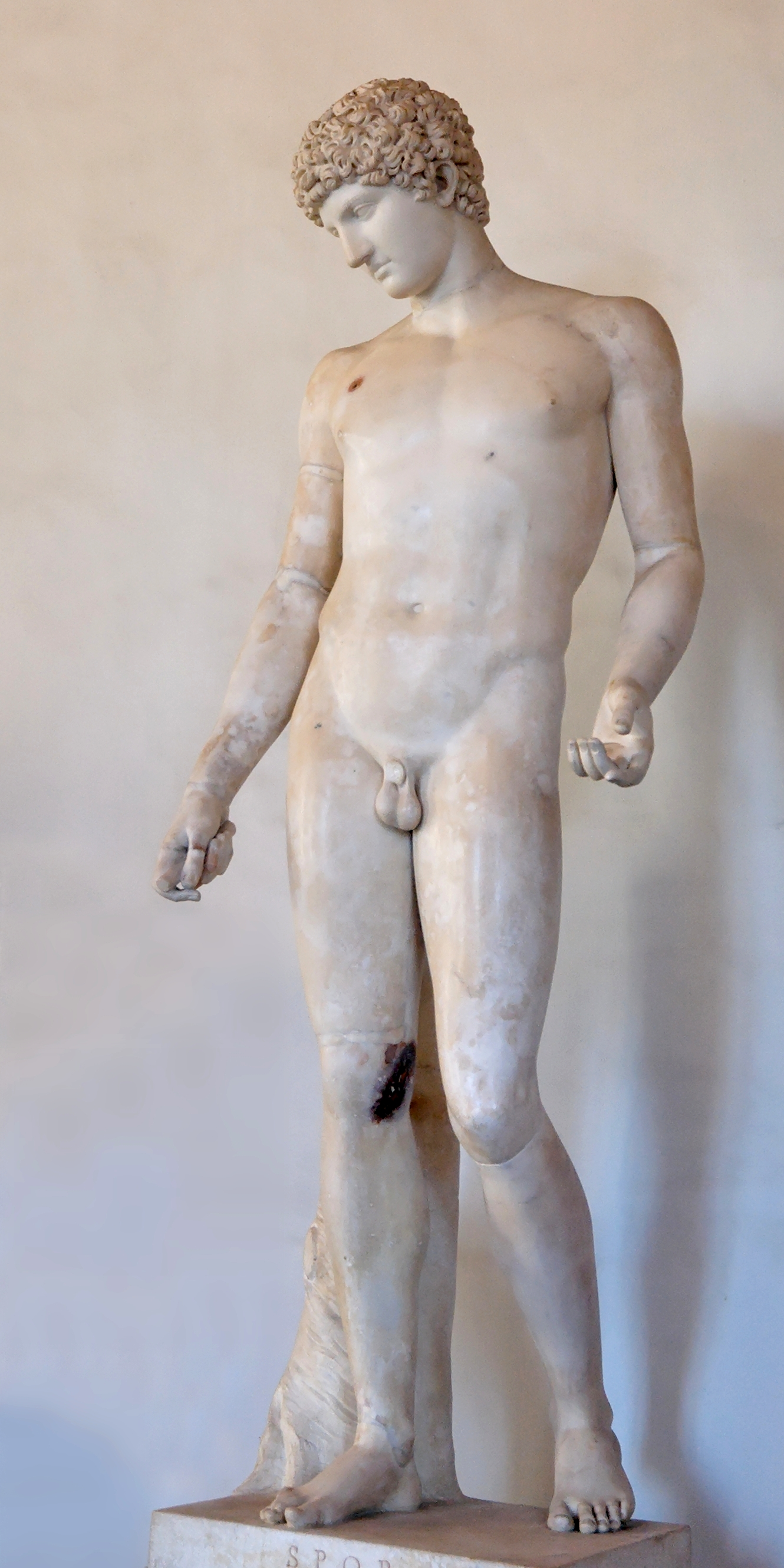 Roman copy (2nd century AD) of a Greek statue representing Hermes (4th century BC). From the villa Adriana in Tivoli.